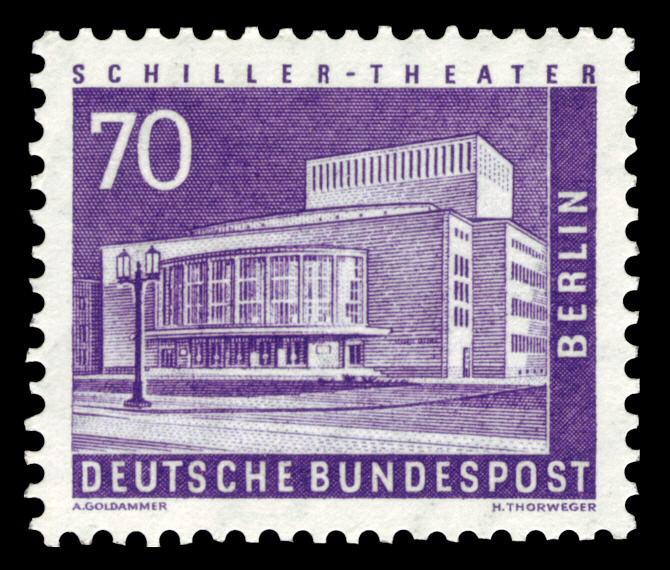 Definitive stamp series Pictures of Berlin (II)